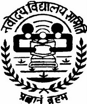 JNV logo